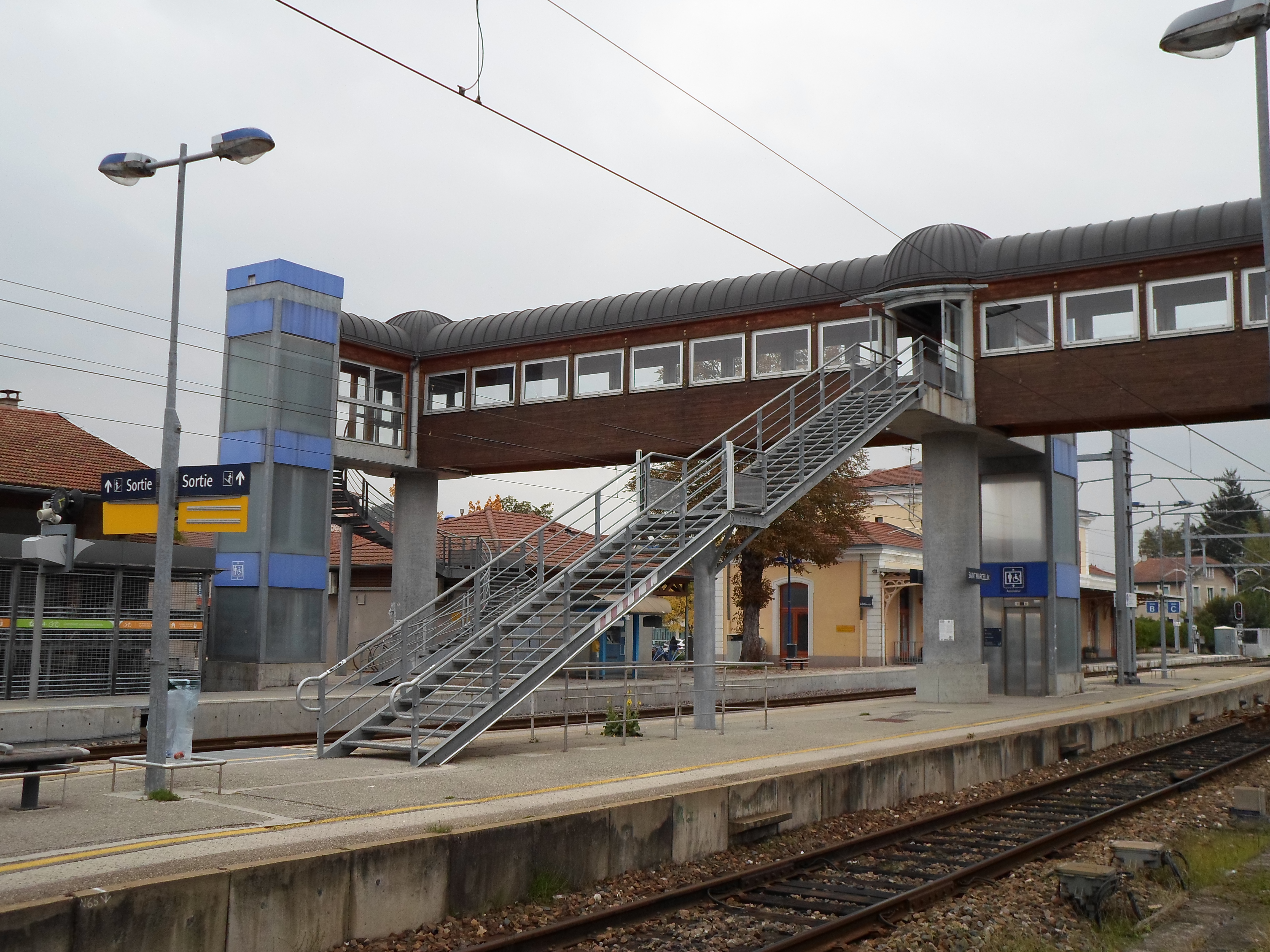 Gare de St Marcellin F38160 VAN_DEN_HENDE_ALAIN CC-BY-SA-40 P0658